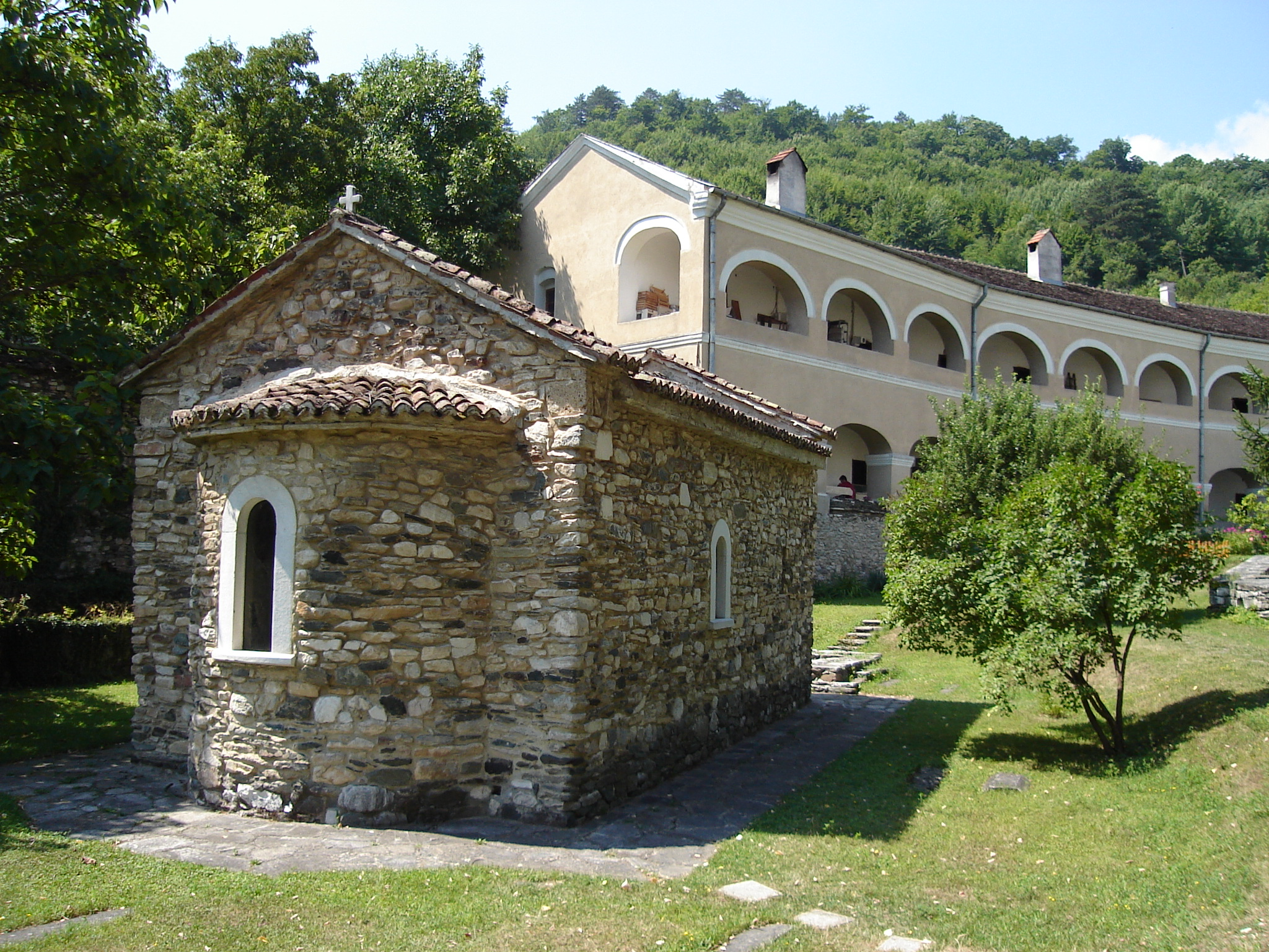 Studenica monastery, Church of St. Nicolas